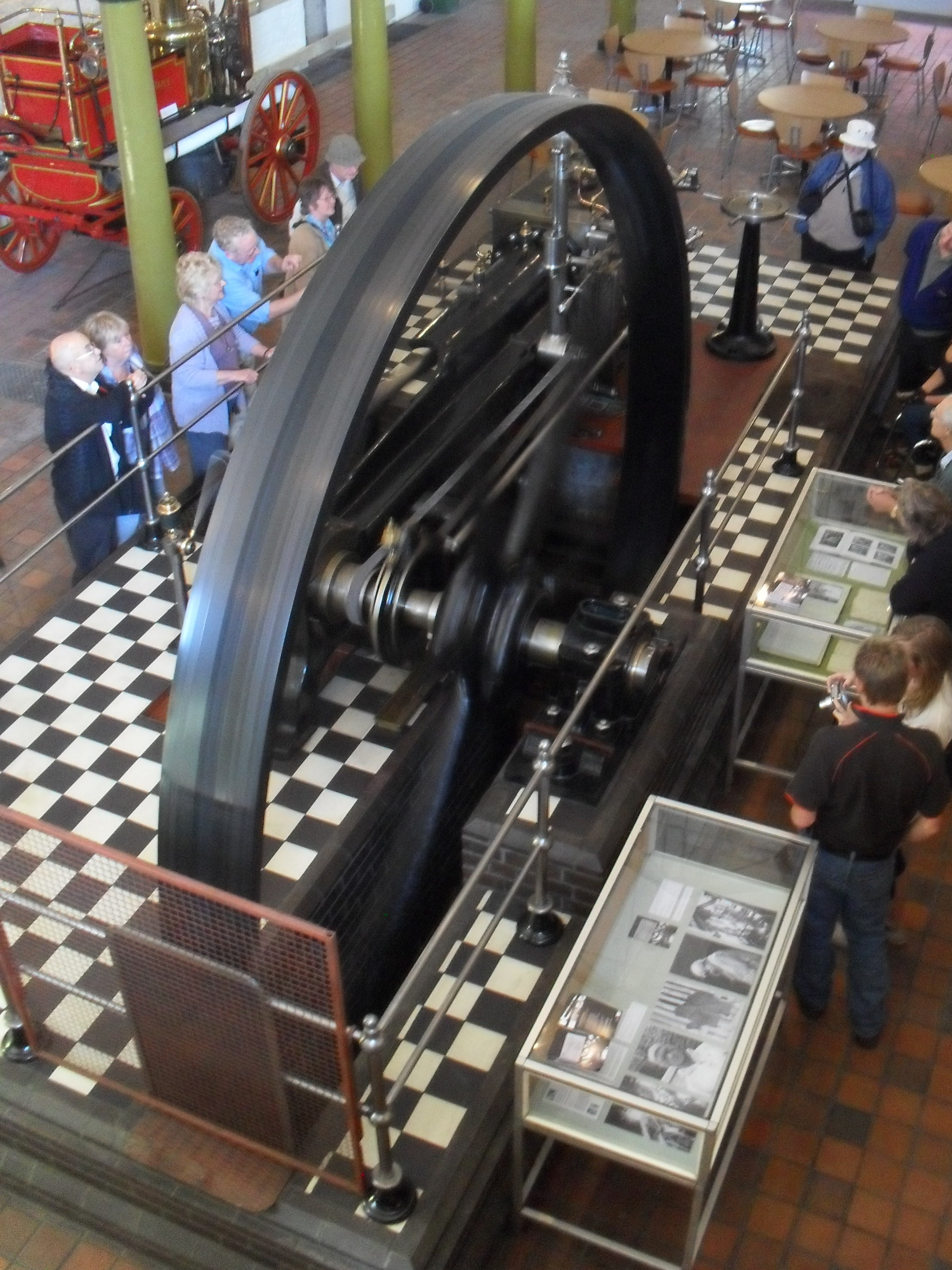 The 1859 Corliss horizontal reciprocating steam engine the British Engineerium, The Droveway, West Blatchington, Hove, City of Brighton and Hove, England. This was built by Crepelle & Grand of Lille, France, and won first prize at the Paris Exhibition in 1889.